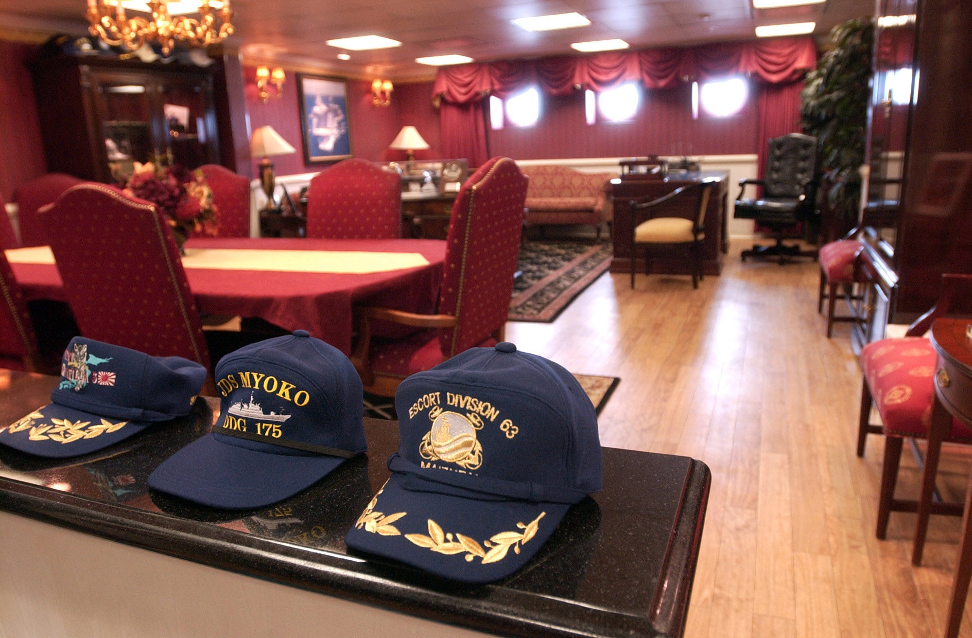 PACIFIC OCEAN (March 16, 2007) - Hats belonging to Japan Maritime Self Defense Force (JMSDF) officials sit on top of the counter in the commanding officer’s office while their owners tour Nimitz-class aircraft carrier USS Ronald Reagan (CVN 76). Officials from JMSDF visited the Ronald Reagan during a passing exercise (PASSEX) between U.S. and Japan. The PASSEX involved various maritime drills aimed at enhancing Japan’s maritime defense abilities. Ronald Reagan Carrier Strike Group and embarked Carrier Air Wing (CVW) 14 are underway in support of operations in the western Pacific. U.S. Navy photo by Mass Communication Specialist 2nd Class John P. Curtis (RELEASED)